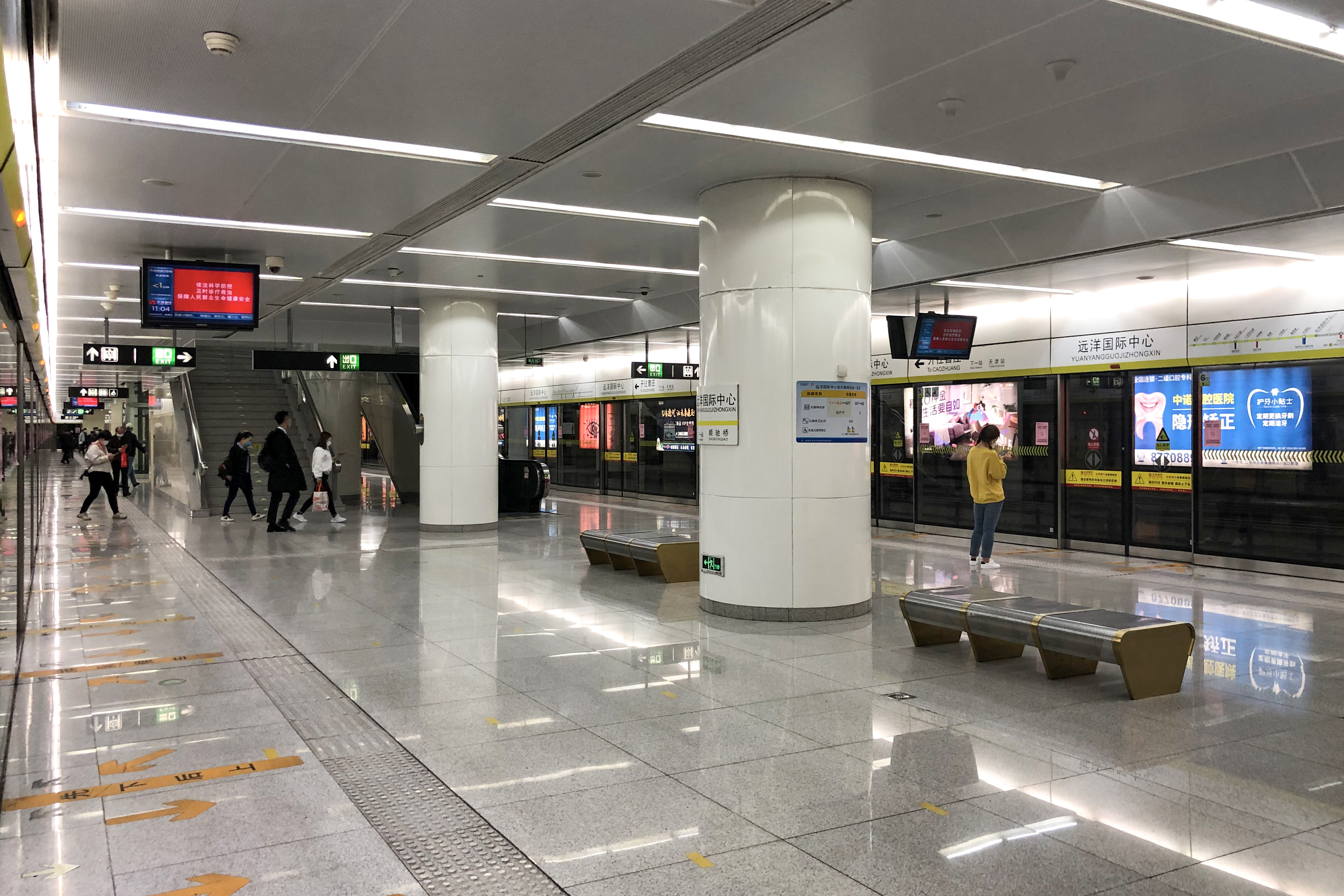 Just one of the by-products of my An-225 hunt...